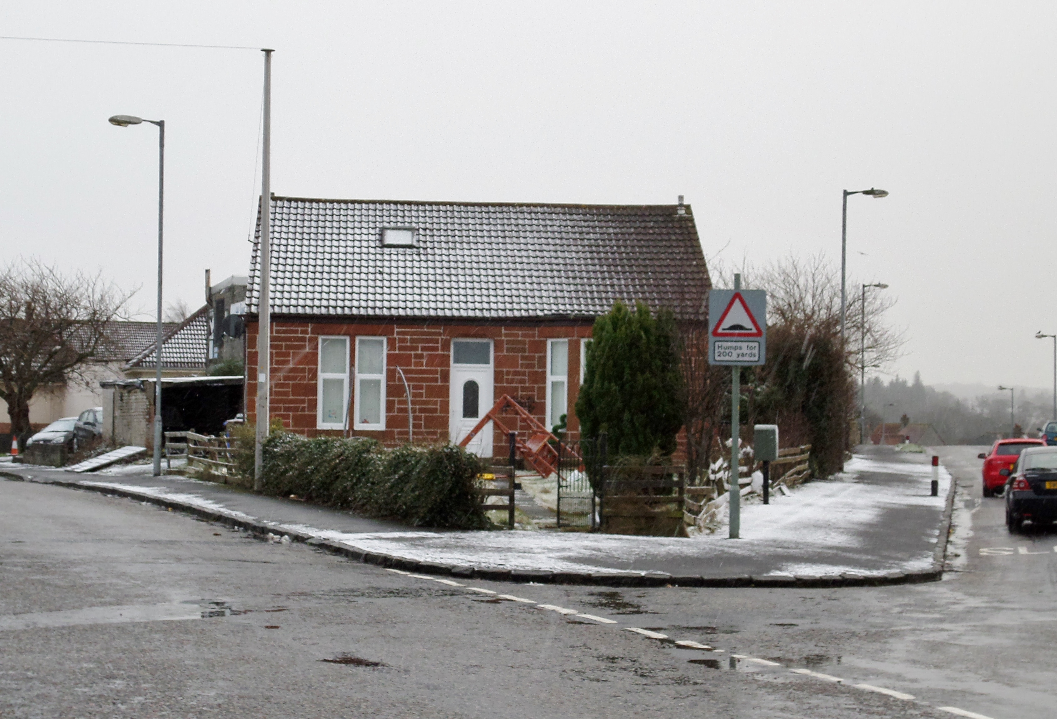 Knowehead Cottage, Riccarton, South Ayrshire, Scotland. Site of the home of the murdered farm labourer James Young. A smallholding was located here in the 19th century.